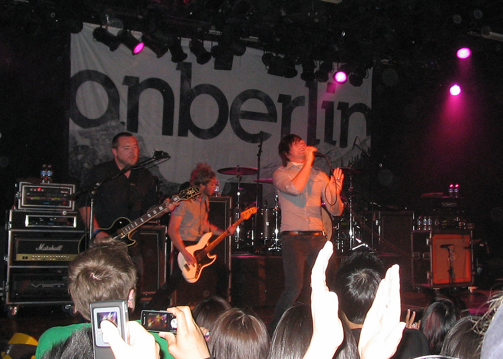 Anberlin performs at Commodore Ballroom, 2009-05-30.